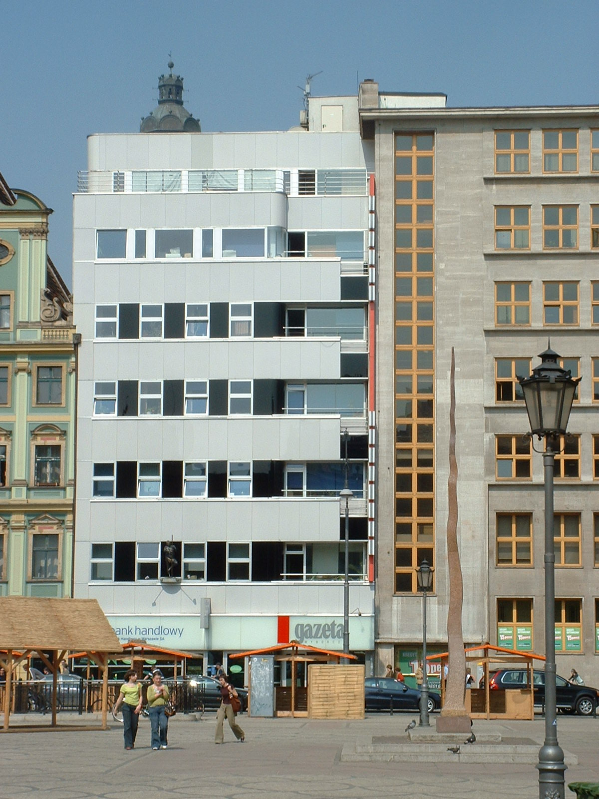 Former Mohrenapotheke by Adolf Rading in Wrocław. 1928, modern movement.